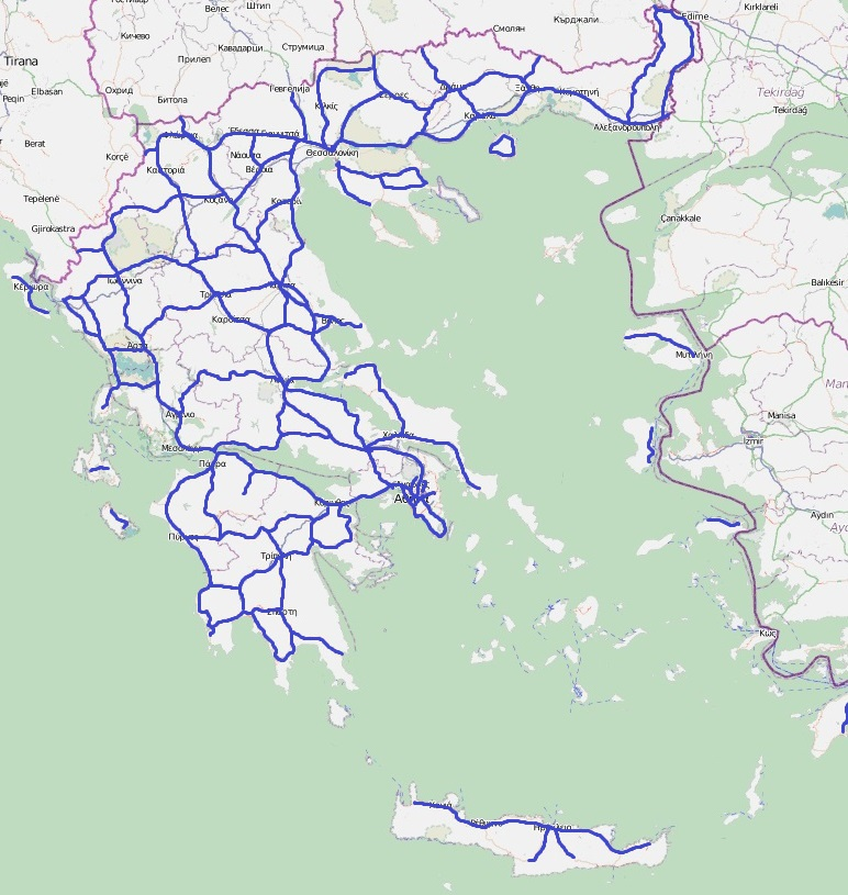 Greek national roads map